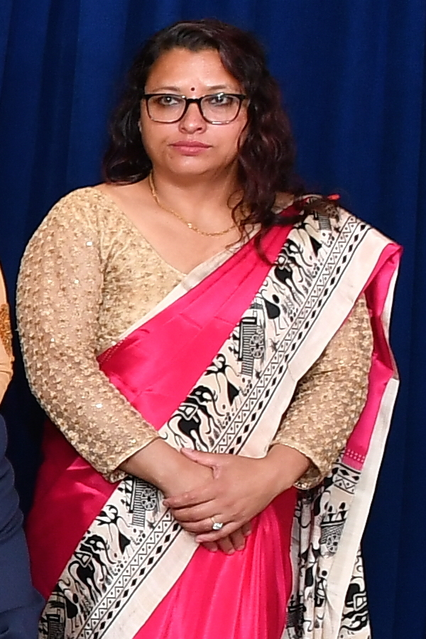 U.S. Secretary of State Mike Pompeo (center left), Advisor to the President Ivanka Trump (center right), and Acting Director of the Office to Monitor and Combat Trafficking in Persons Kari Johnstone (front far left) pose for a group photo with the 2018 'TIP Report Heroes' at the U.S. Department of State, on June 28, 2018. (State Department photo/ Public Domain)